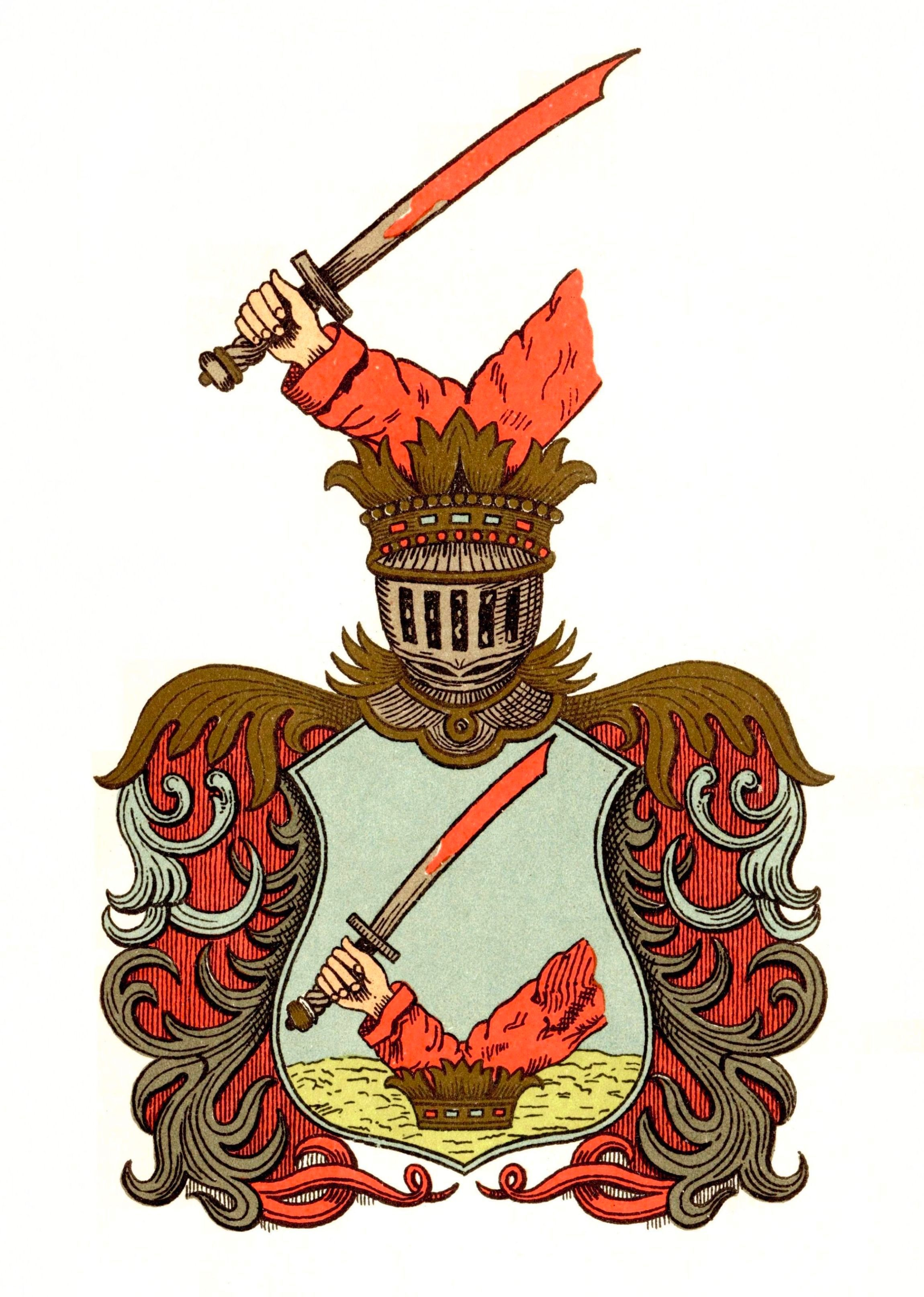 Coat of arms of family Arany from 1634